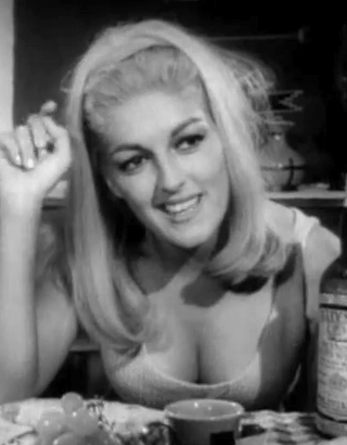 Lori Williams in Faster, Pussycat! Kill! Kill! (1965)